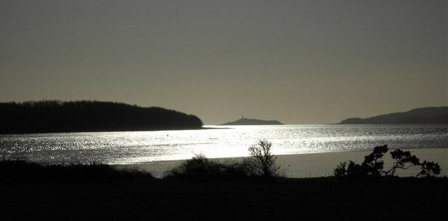 Kirkcudbright Bay Looking across Kirkcudbright Bay towards Little Ross island.